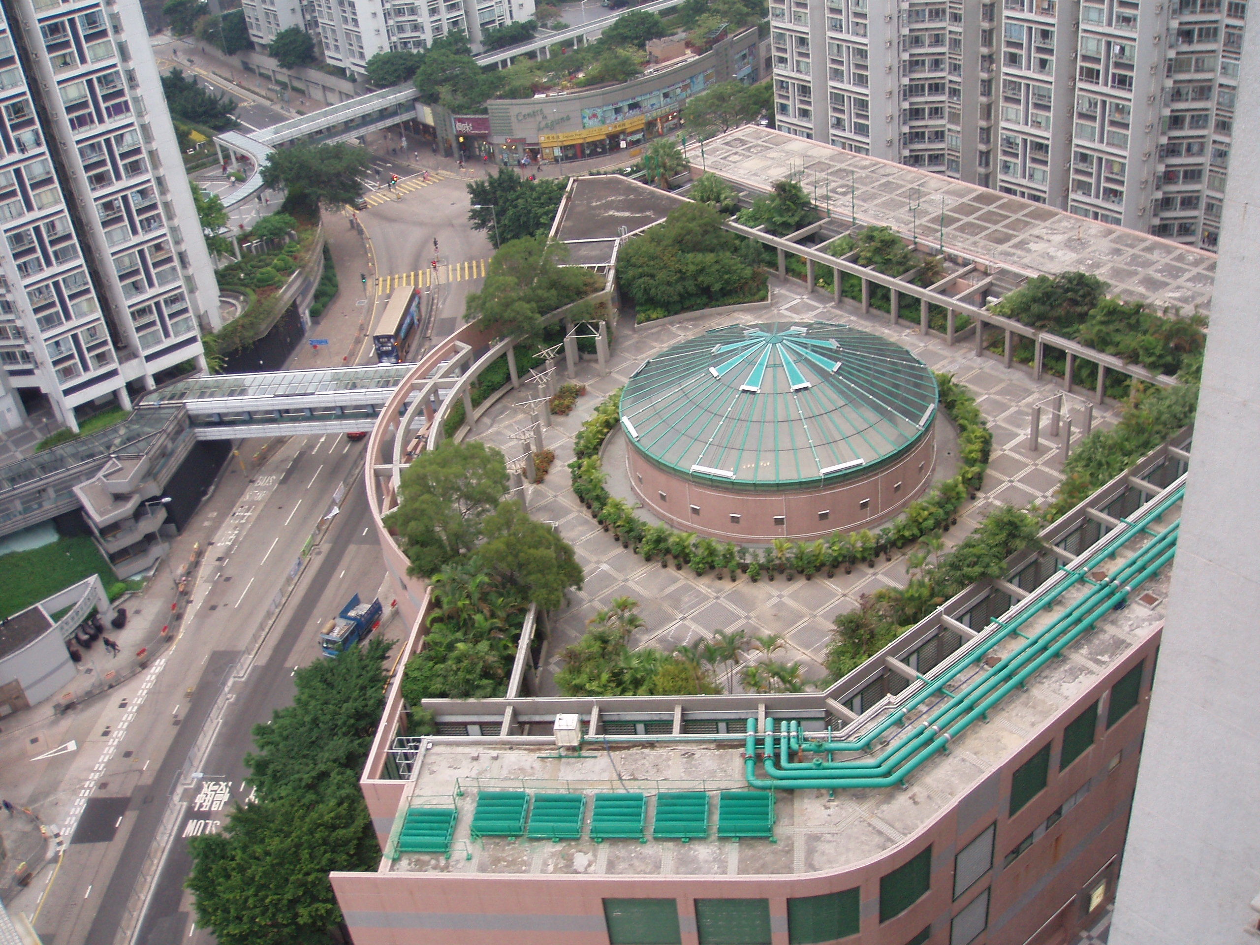 Laguna Plaza overlook (2009)